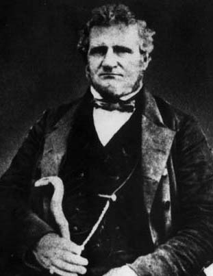 John Stuart Hepburn an early pastoralist and landholder in Victoria, Australia. He founded the Smeaton Hill Run and the town of Smeaton in Victoria, suggested the name for the Jim Crow Creek and was the first white man to discover the mineral waters at Hepburn Springs.